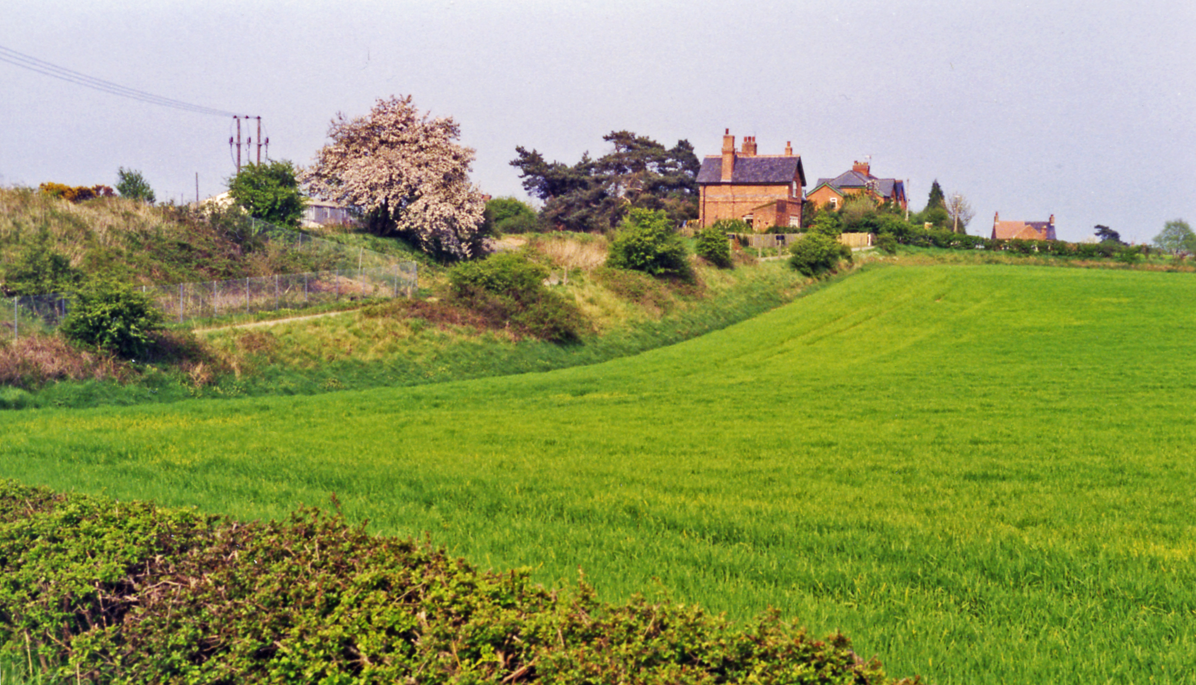 Former station at Edwinstowe, 1995. View NE, towards Lincoln: ex-GCR (formerly Lancashire, Derbyshire & East Coast Railway) Chesterfield - Shirebrook North - Lincoln line, joined at Clipstone Junction (a mile or so west) by the ex-GCR Mansfield Railway, which in turn joined the GCR Sheffield - Nottingham main line at Kirkby-in-Ashfield. Edwinstowe station closed to passengers with services on the Mansfield line from 2/1/56 (goods 4/1/65), although that line remained open for through Excursion trains and for freight. The LD&EC was closed Chesterfield - Shirebrook from 4/12/51, on to Lincoln from 19/9/55 for passengers, but Shirebrook - Clifton-on-Trent remained in use for merry-go-round coal trains until 2003.